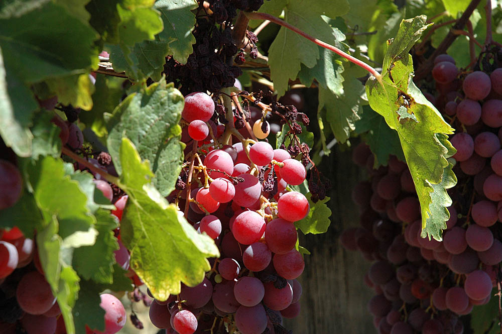 At a Swan Valley vineyard. Are these shiraz grapes? The more wine-savvy amongst you might be able to tell me. I just like the colour.